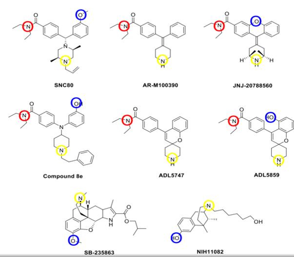 Shown are common selective delta opioid receptor agonists along with the circling of a few common thematic moieties. Blue represents a phenolic type moiety, the yellow represents a basic nitrogen, the red represents a diethyl amide moiety, which may not be entirely necessary, but rather represents an element of bulk which fits into a hydrophobic pocket, and